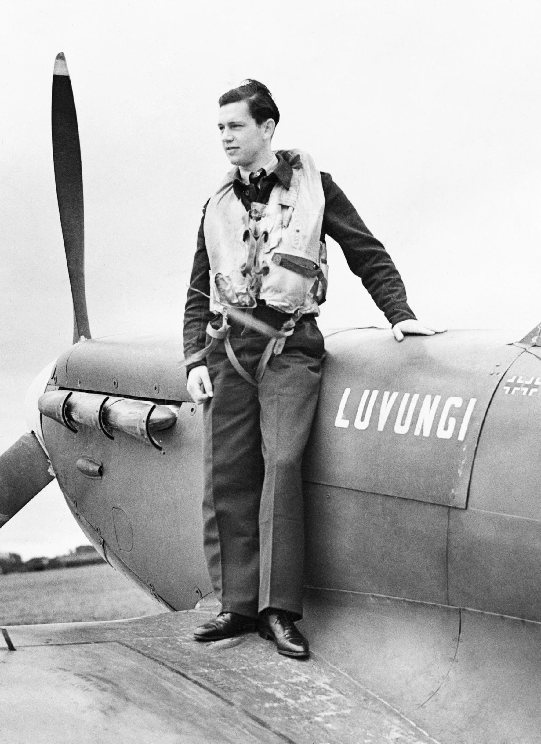 Pilot Officer H. A. Picard of No. 350 (Belgian) Squadron, on the wing of his Spitfire at Kenley, July 1942. In November 1941 the first Squadron of Belgian volunteers was formed in Fighter Command. One of its pilots was Pilot Officer H. A. Picard, seen here on the wing of his Spitfire at Kenley in July 1942. His aircraft was among a number 'presented' by the Belgian Congo, and bears the name of one of its principal towns.